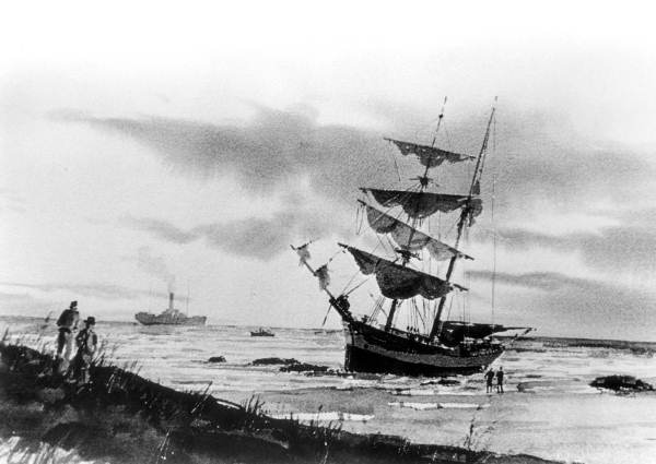 The ship Providencia was en route from Havana, Cuba, to Cádiz, Spain, with a cargo of coconuts. The ship wrecked about where Mar-a-Lago is. The coconuts were salvaged; as there were many more than could be eaten by the few residents, many were planted. From this incident came Florida's palm trees (not native anywhere in the U.S.), and the name of Palm Beach, Florida.